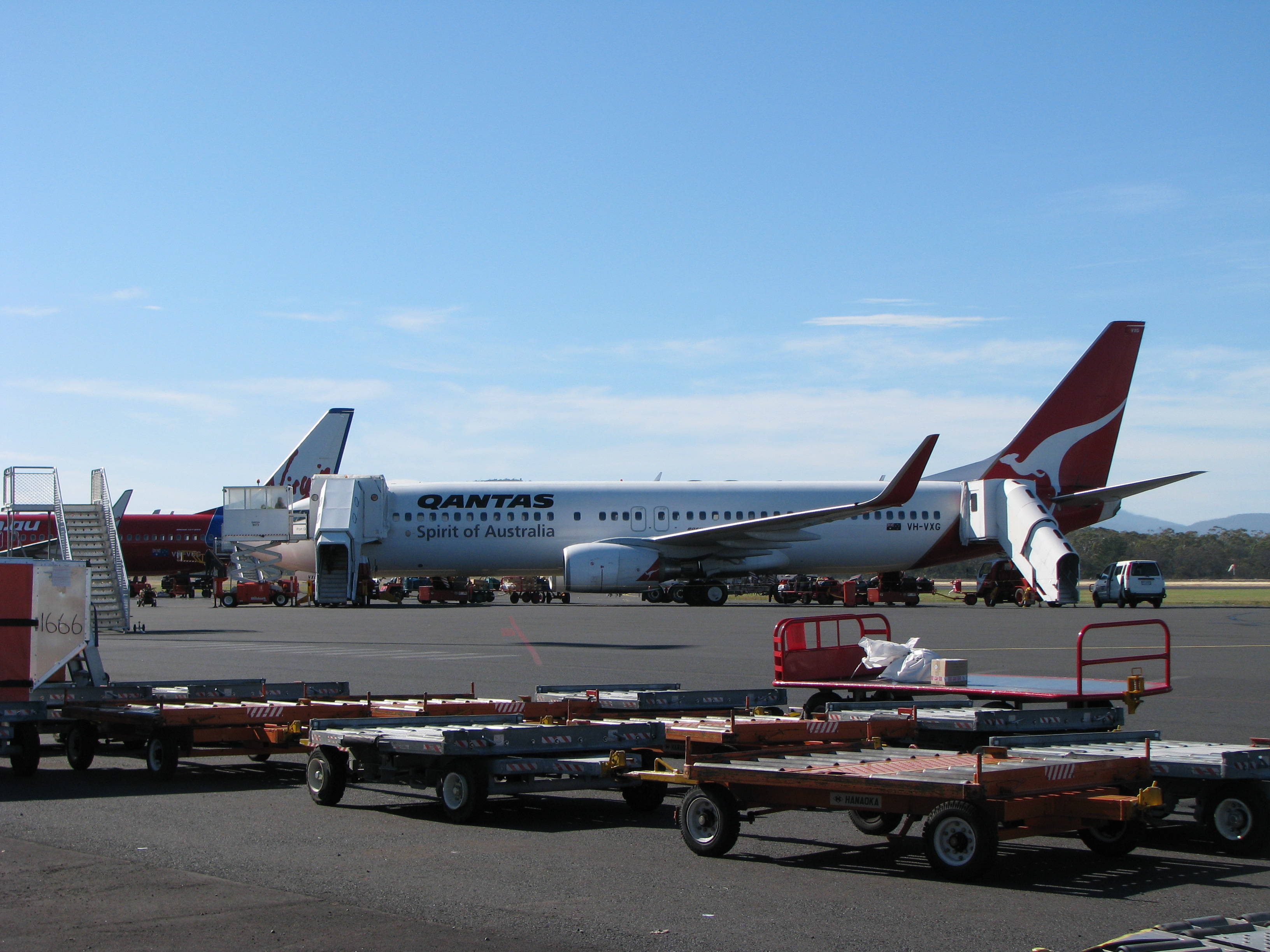 Qantas Boeing 737-800 at Hobart Airport